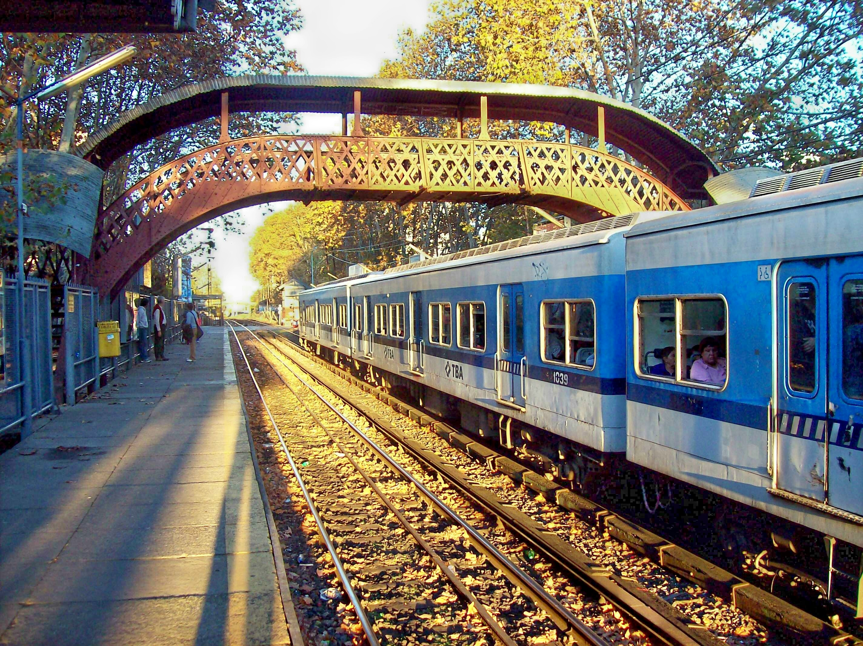 Toshiba electric unit stopped at Colegiales train station, of the homonymous neighborhood. Mitre Line, Buenos Aires, Argentina.